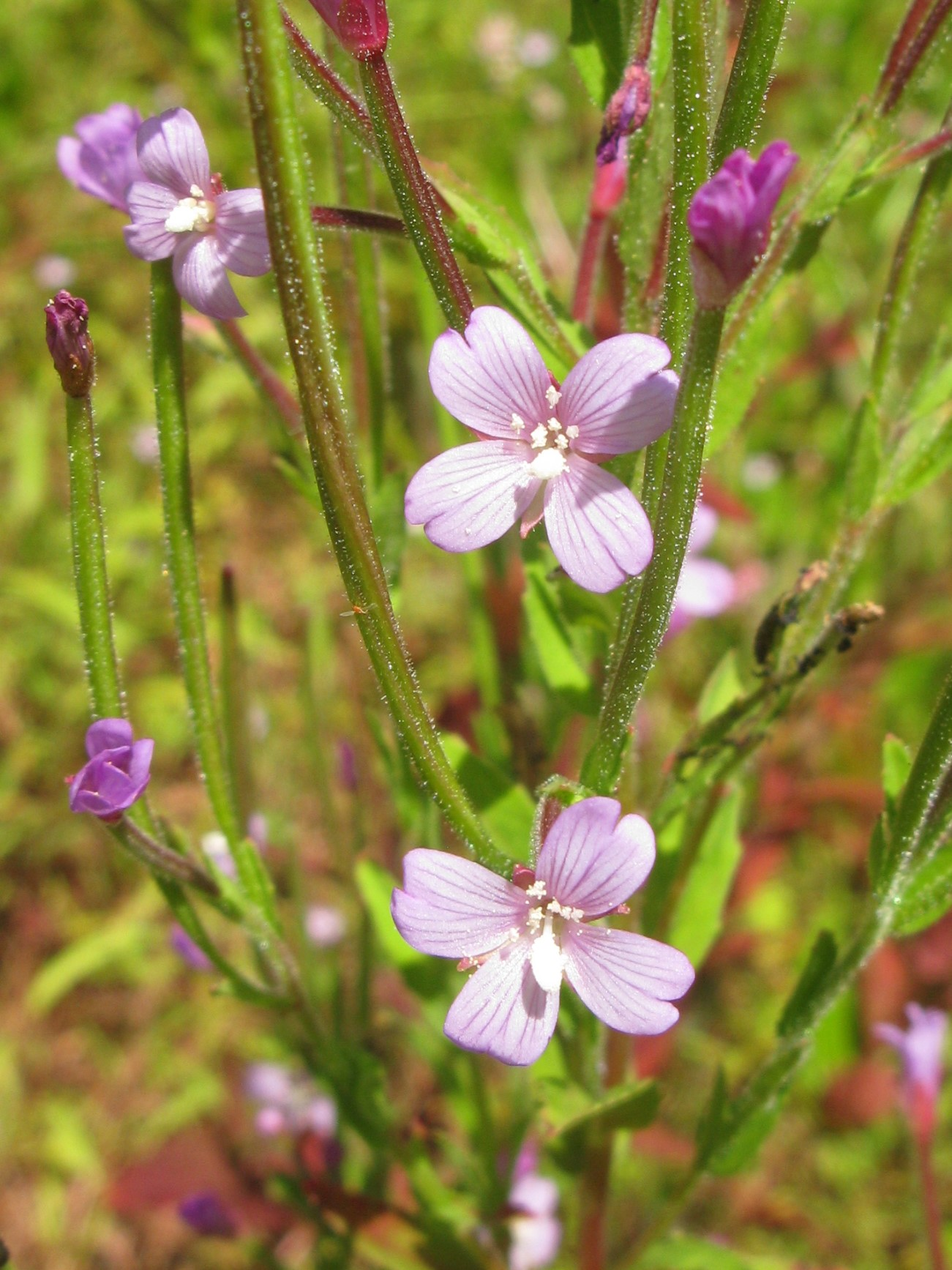 Epilobium pyrricholophum, Aizu area, Fukushima pref., Japan